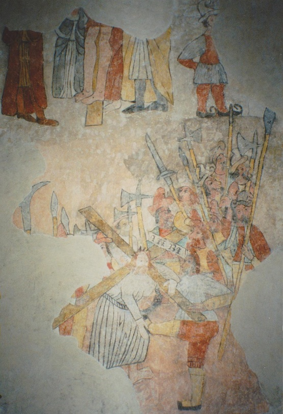 Saint Martin sous Vigouroux church